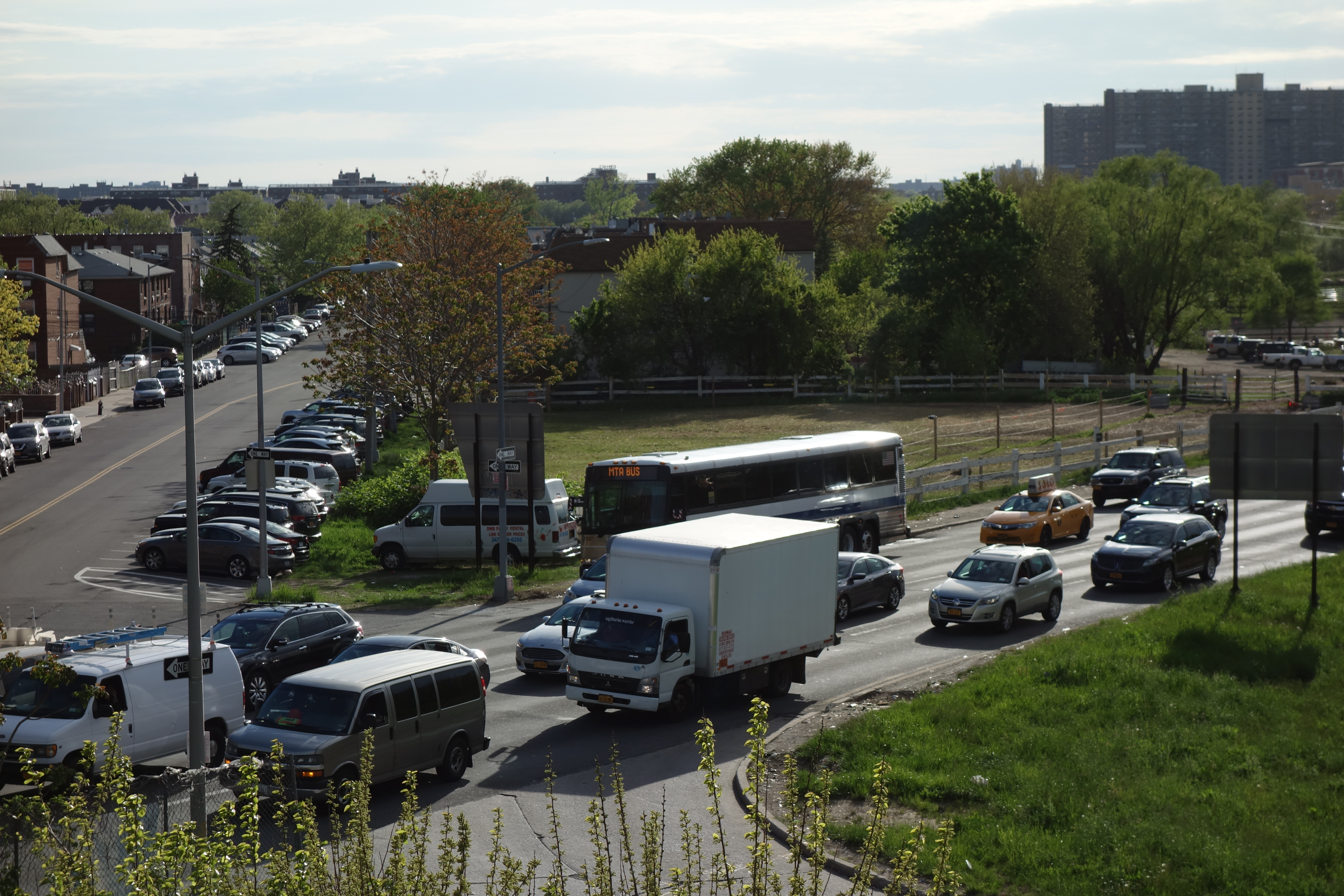 Looking west at South Conduit Avenue at 149th Avenue from a pedestrian overpass bridge in Lindenwood (Howard Beach), Queens. The triangular plot behind the traffic is the GallopNYC Sunrise Stables; GallopNYC is a therapeutic horse riding program run by the city. It was previously operated by the New York City Federation of Black Cowboys. GallopNYC Sunrise Stables